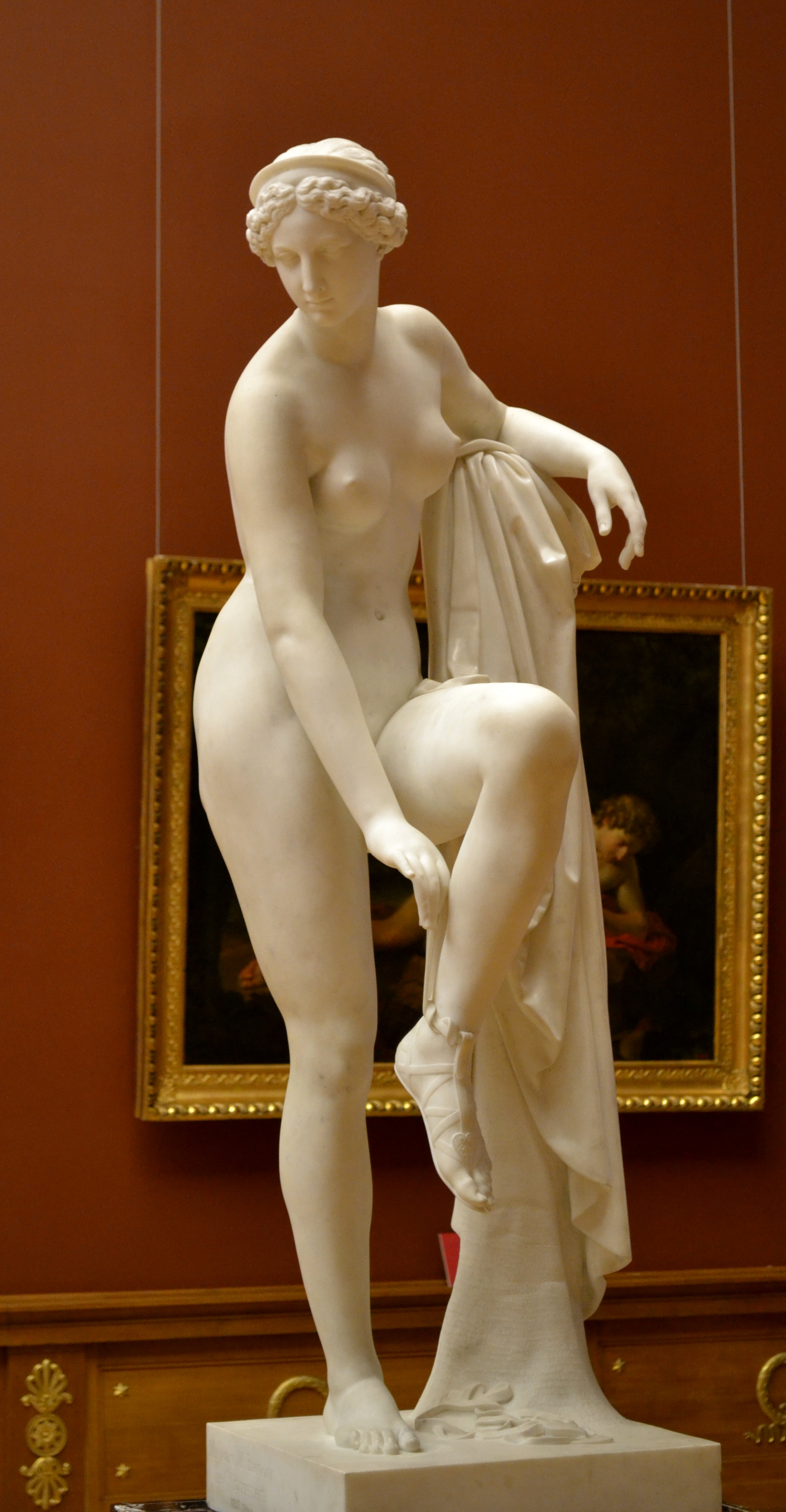 Ivan Vitaly. "Venera" 1852. State Russian Museum, St. Petersburg, Russia